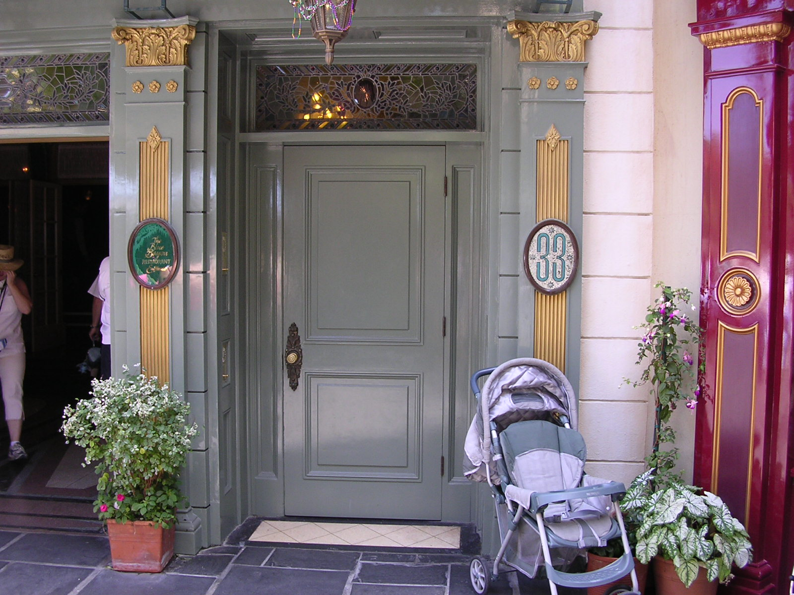 Club 33 in Disney Land, taken by me.